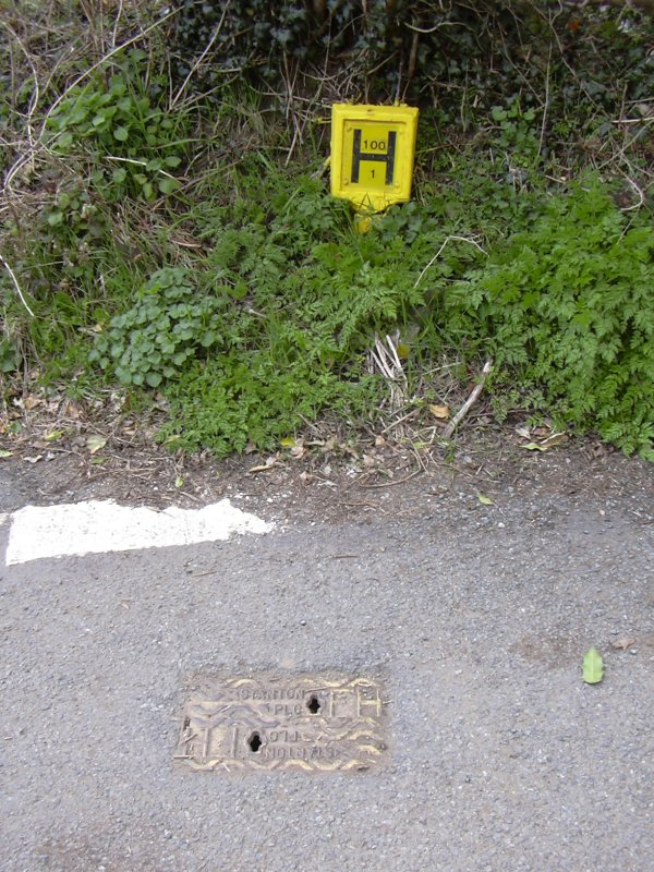 A fire hydrant in Bewdley, UK. Taken by me on 4 April 2006. As with all such signs the number in the top denotes feed pipe size (100=100mm, 6=6 inch) and the lower number the distance from the sign, in metres or feet according to the units of the top number.